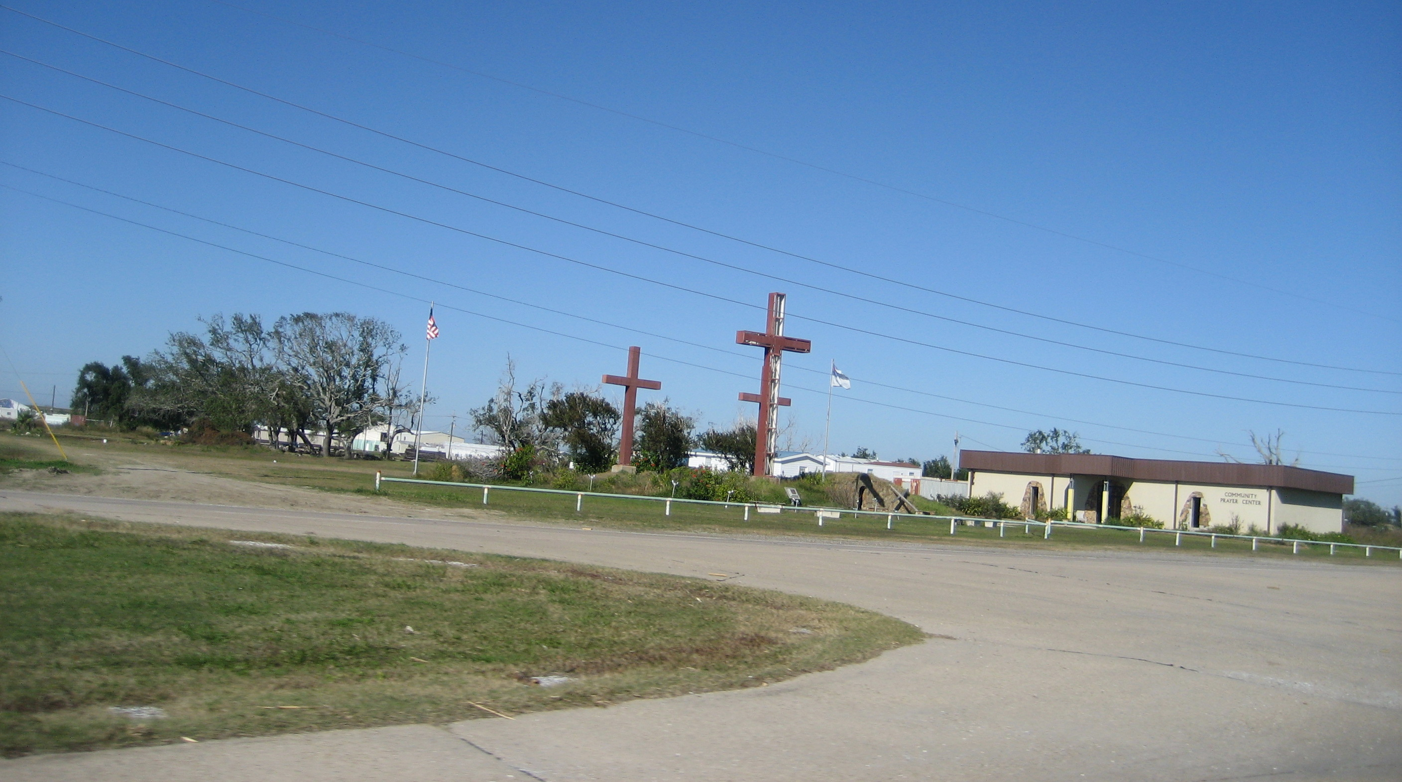 Chapel & the three crosses, Triumph, Plaquemines Parish, Louisiana